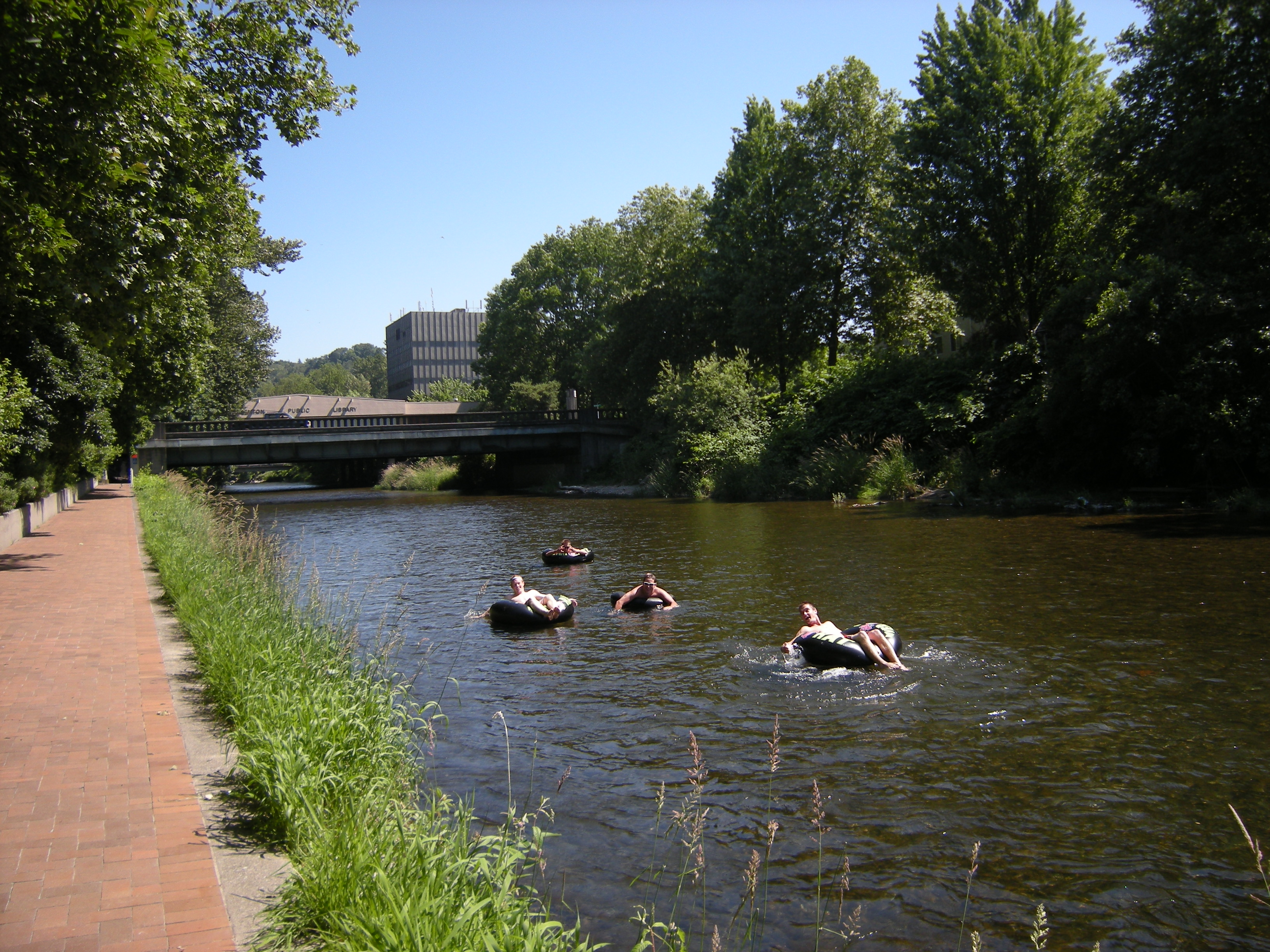 Tubing on the Cedar River by downtown Renton, Washington. In the background, behind the bridge is the Renton Public Library (which spans the river) and the 200 Mill Building, which was the former Renton city hall.